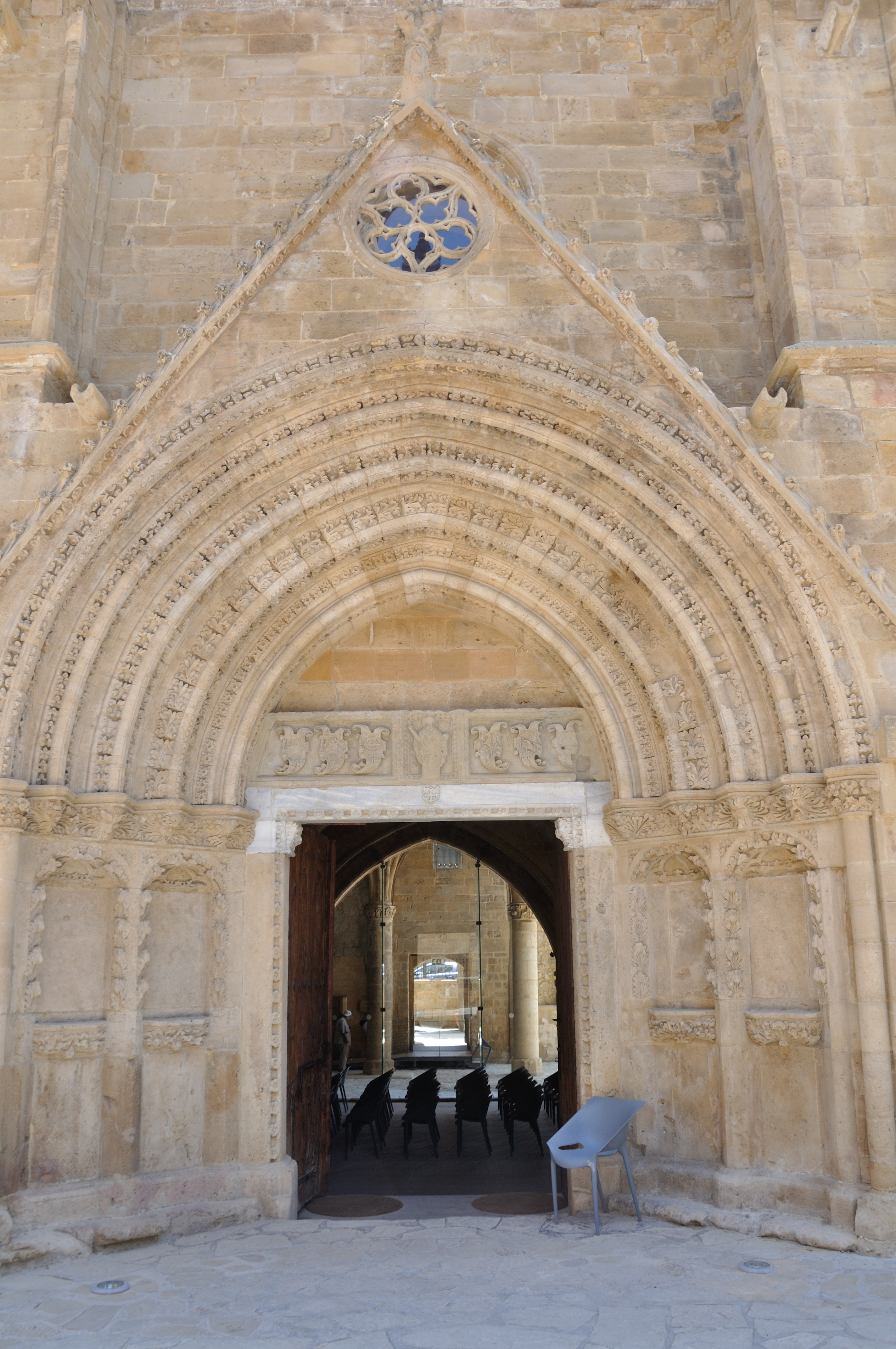 Cyprus, views of Nicosia